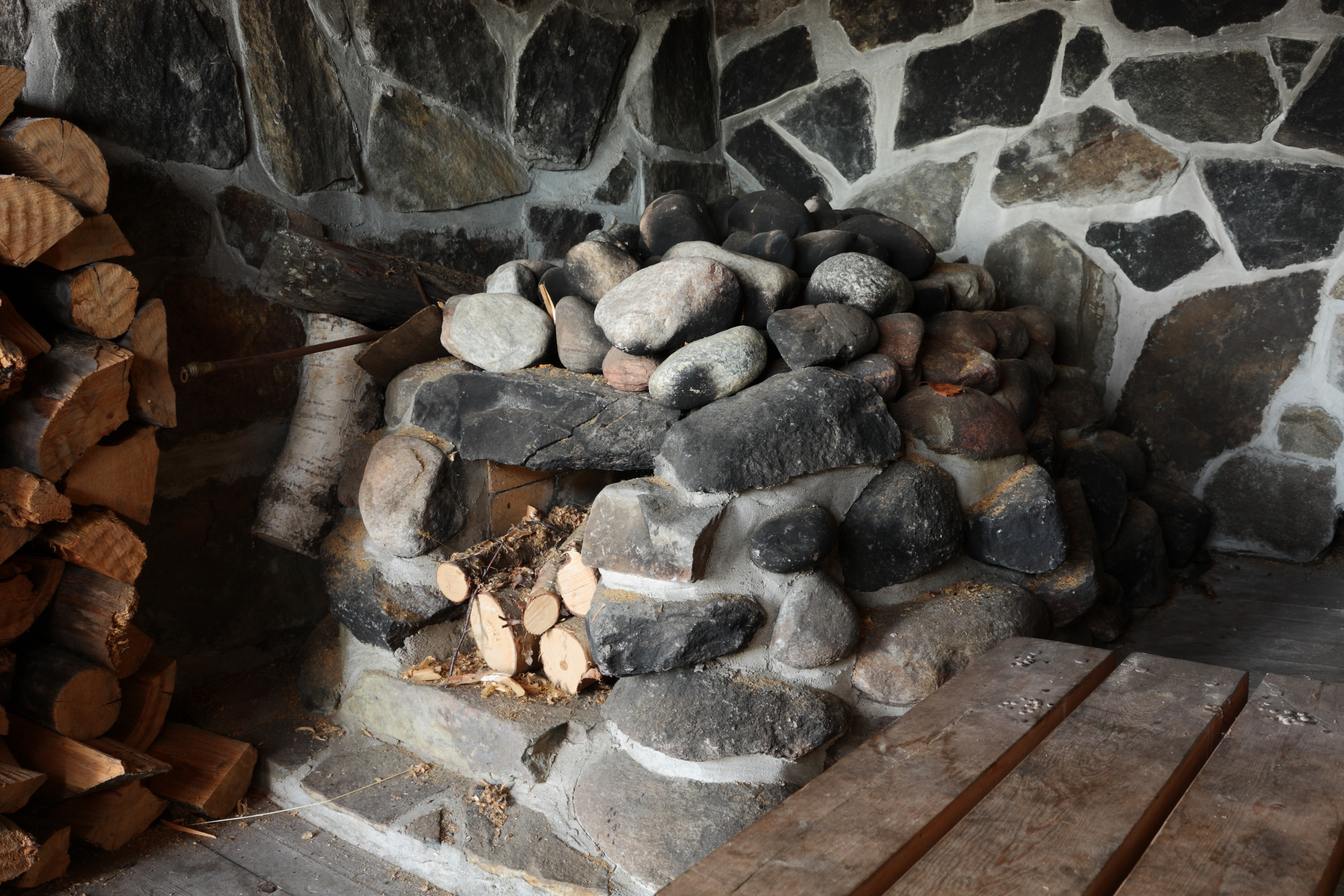 A Finnish smoke sauna stove. This one is located in a museum area close to the Utsjoki church. The sauna was used by long-distance church-goers overnighting in the log cabins next to the church.